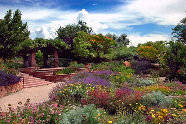 Red Butte Garden, Salt Lake City, Utah, U.S.A. -- July 2005, Nikon D70, Cory Maylett